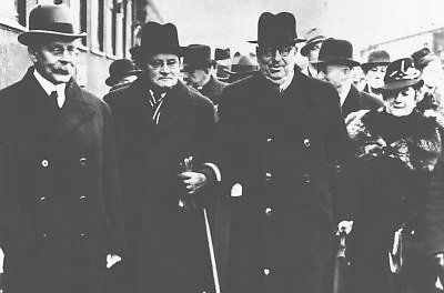 Counsellor of state Juho Kusti Paasikivi leaving for Moscow for a first round of negotiations on 9 October, 1939. Seeing him off are Prime Minister A.K. Kajander, speaker of Parliament Väinö Hakkila and Mrs. Alli Paasikivi.